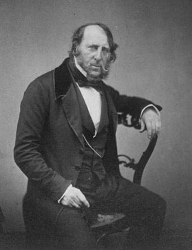 portait photograph of George Cruikshank, excerpt from a book on an educational site of wikispaces:history of books,of Shelley and Humphreys